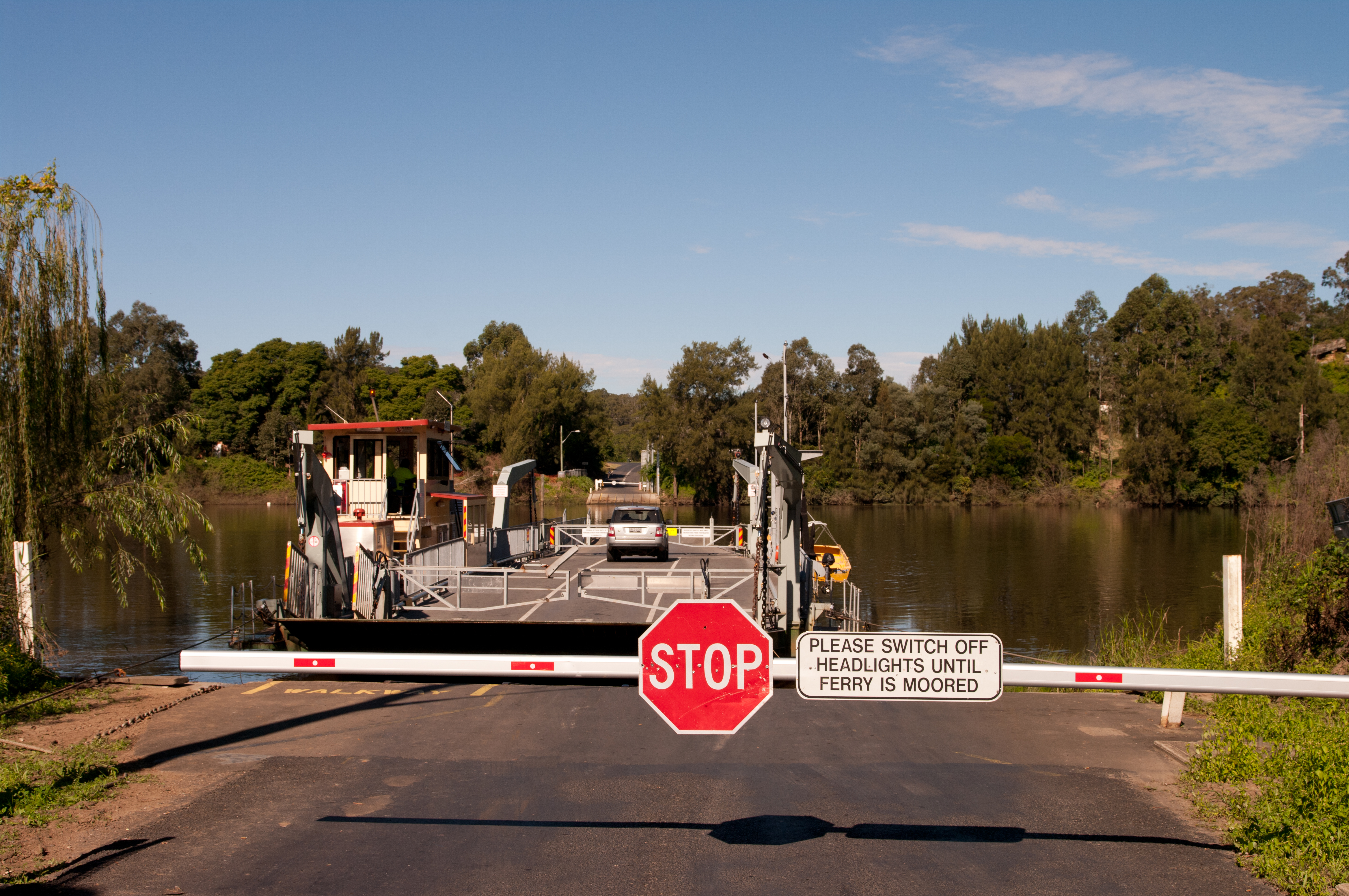 Sackville Ferry is a cable ferry across the Hakesbury river